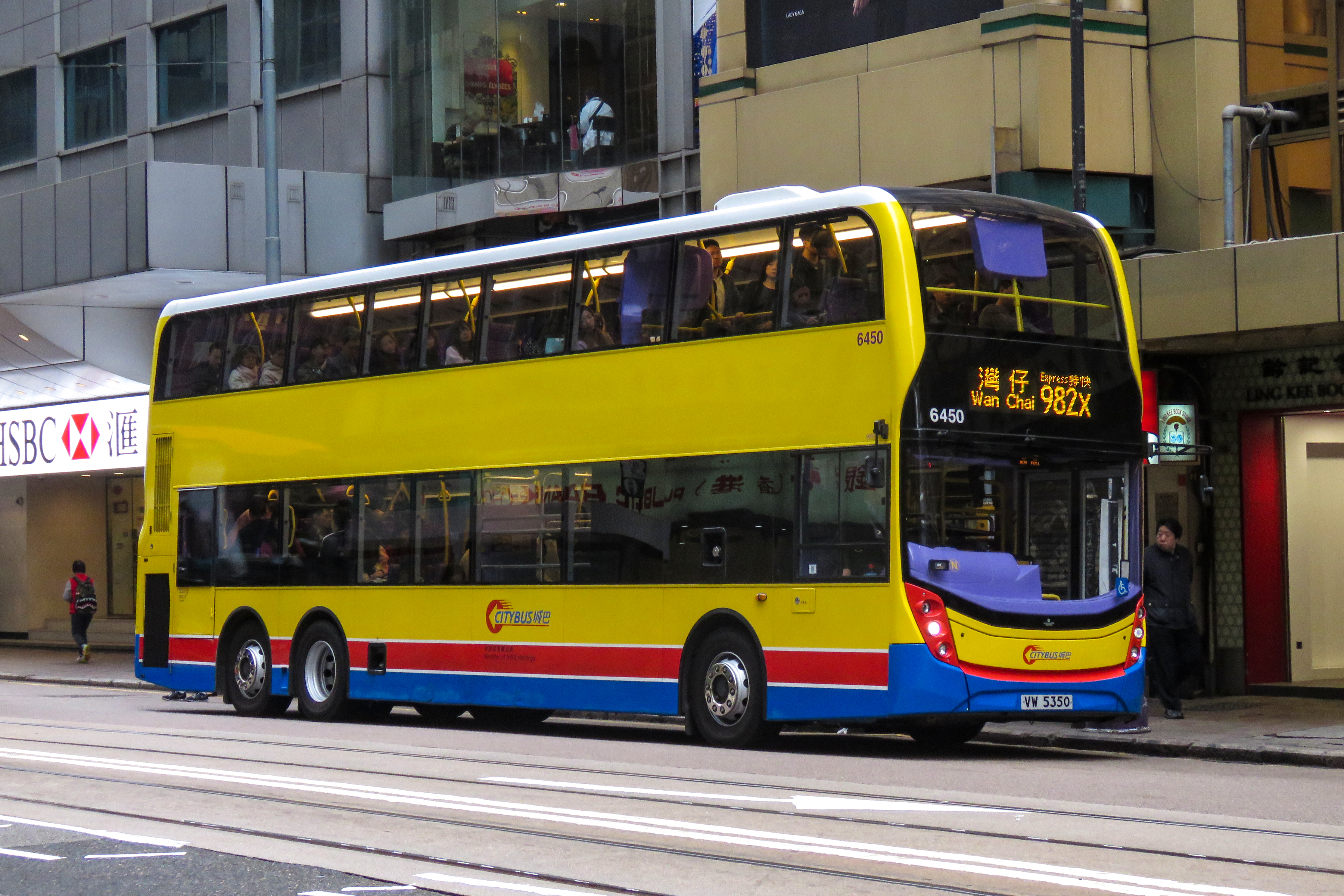 Brand new MMC for Route 8 Express.